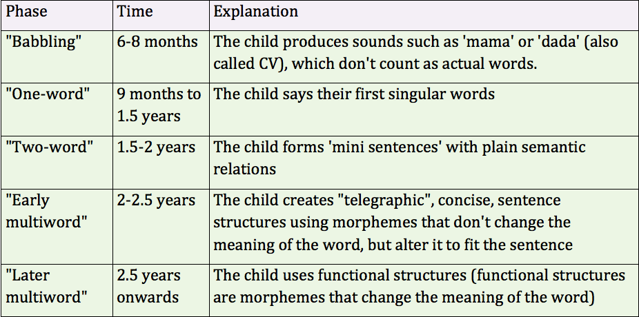 This chart shows the different stages of language acquisition